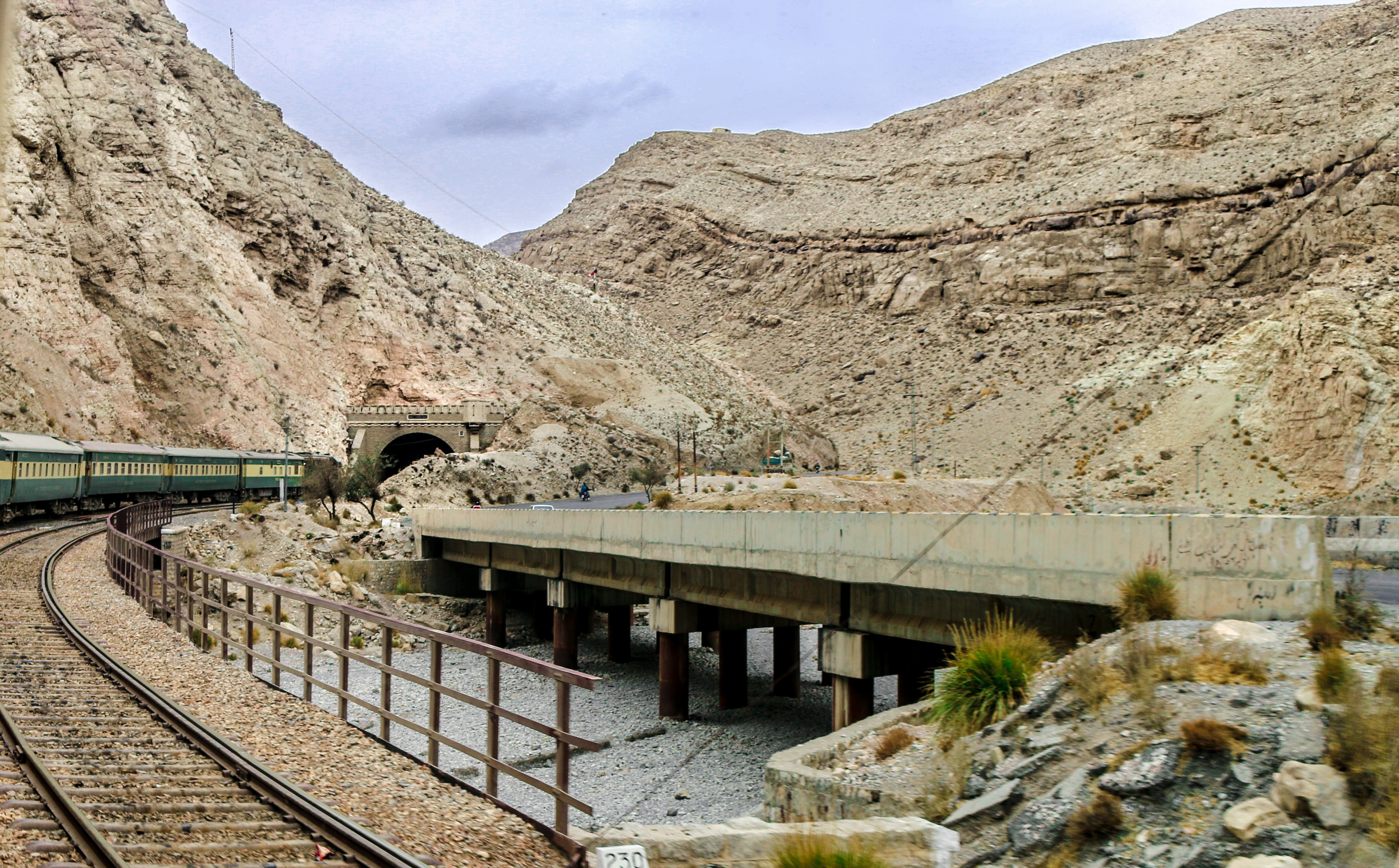 i took this picture on moving train when train is entering in tunnel at Bolan Balochistan.